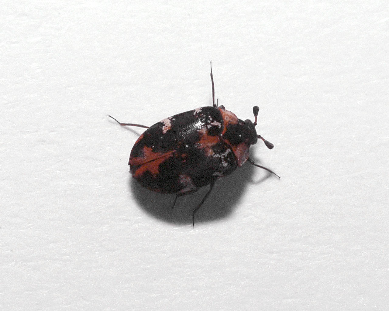 Description: Anthrenus scrophulariae